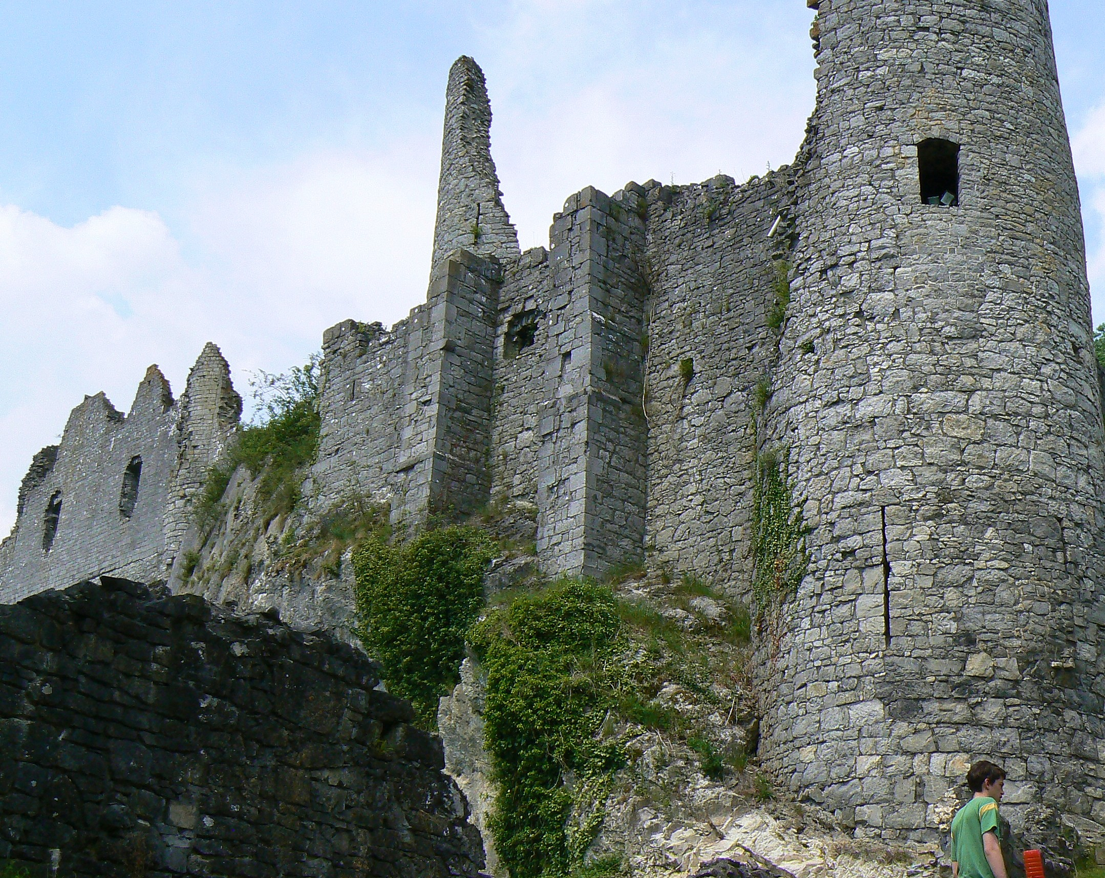 The castle of Montaigle (13th C) - or what's been left - after a small touristic visit of my son Sigurd